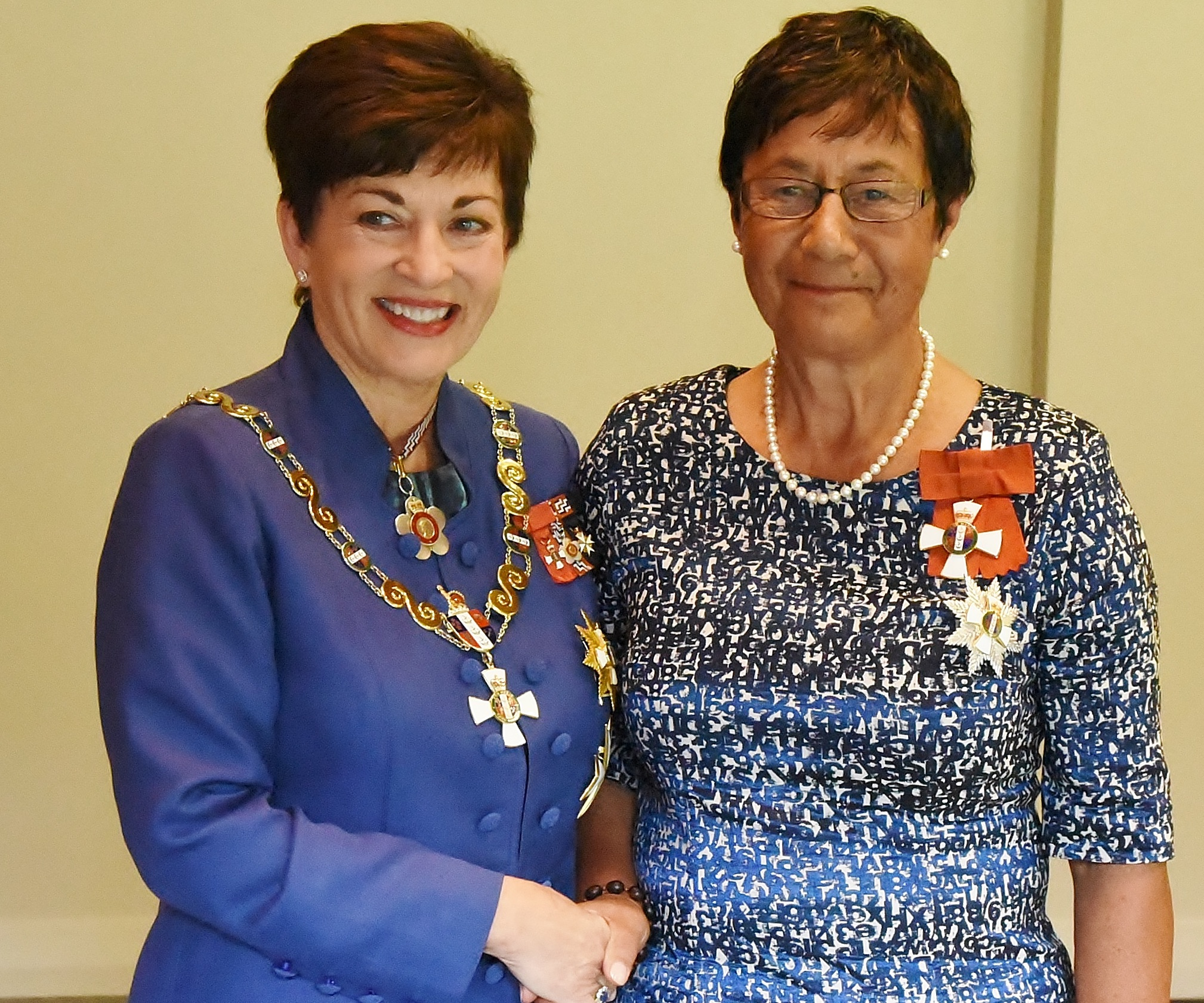 Dame Georgina Kingi (right), of Hastings, DNZM, for services to Māori and education, after her investiture by the Governor-General, Dame Patsy Reddy, 27 April 2017